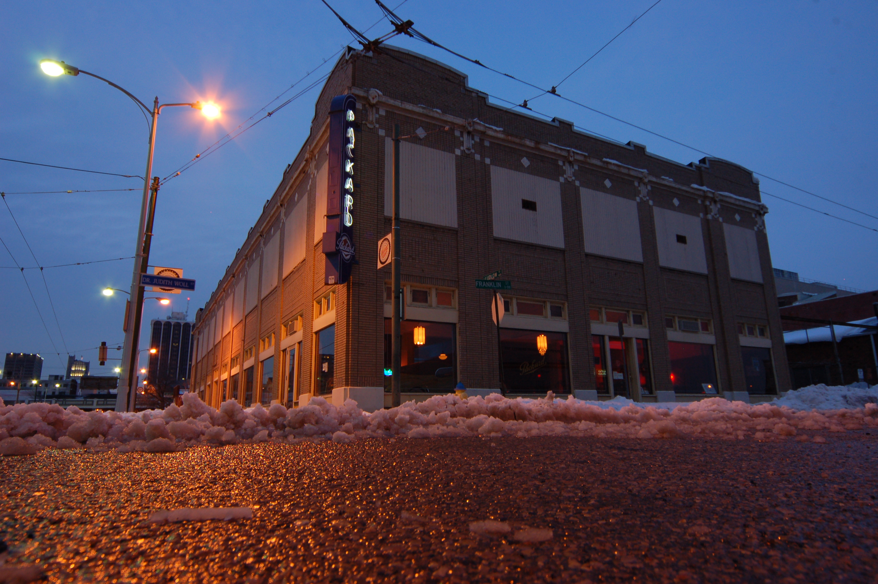 Packard Museum in Dayton, Ohio